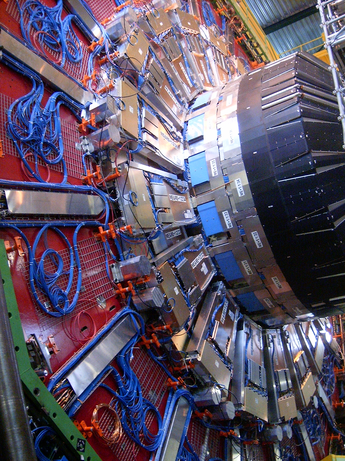 The endcap of the Compact Muon Solenoid at the Large Hadron Collider at CERN Photo taken by: Arpad Horvath at October 29 2005.